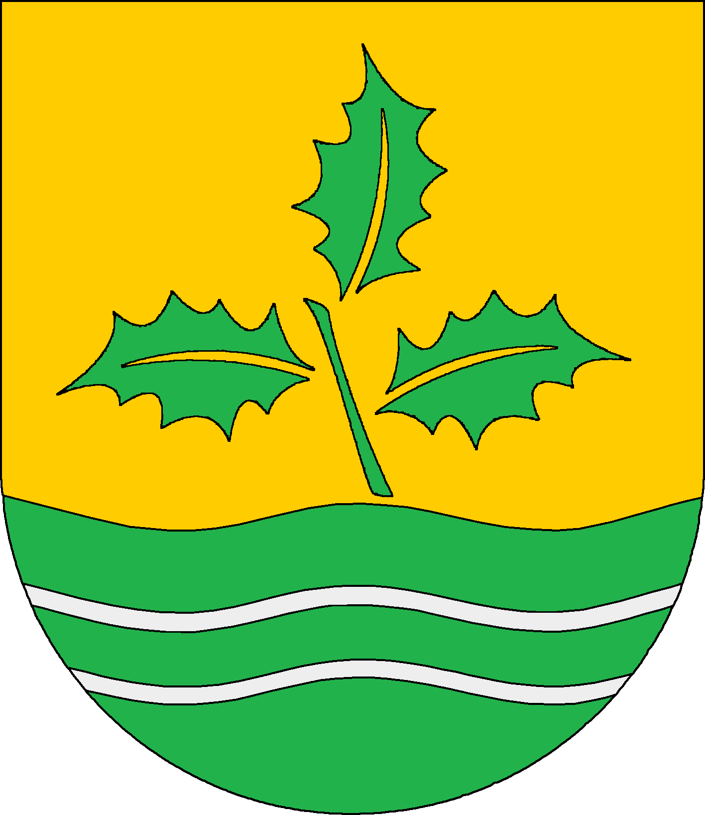 Coat of arms of the municipality Kattendorf in Schleswig-Holstein, Germany.